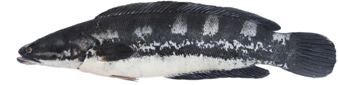 The malabar snakehead, Channa diplogramma